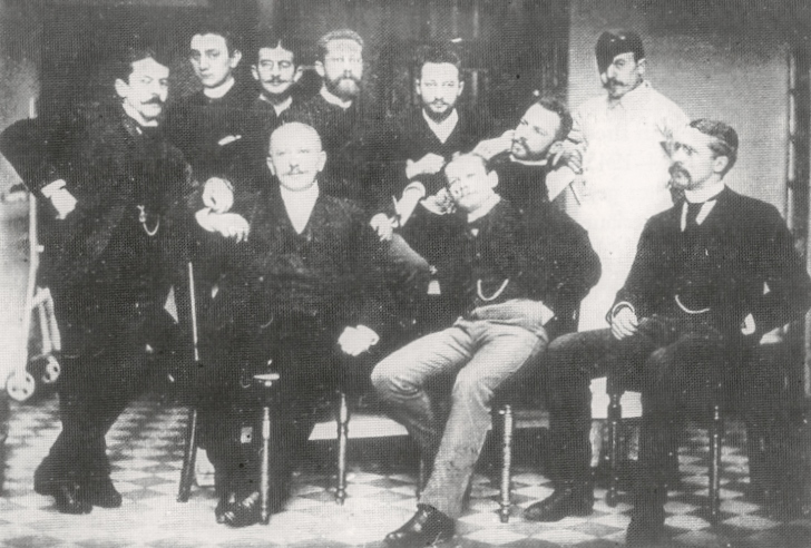 Mikulicz-Radecki assistants: (first row, sitting, left to right) Lasker, Alexander Tietze, Martin (second row, standing) Adolf Henle, Reinbach, Fiedler, [Carl?] von Noorden, Braun, Georg Kraft. On the table: Bronisław Kader